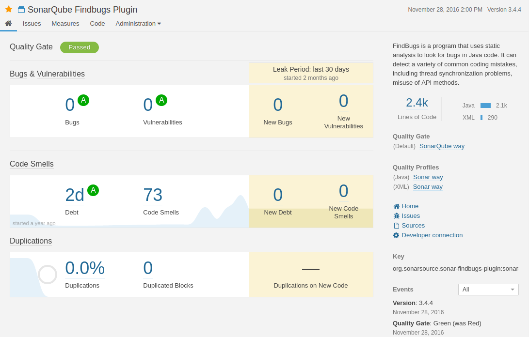 The project landing page in SonarQube 5.6+